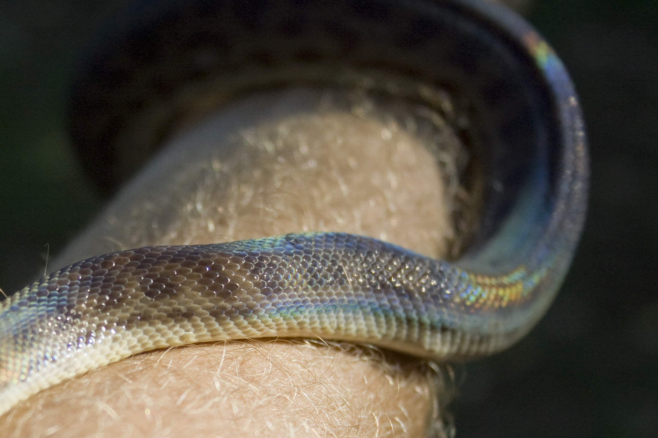 A children's python (Antaresia childreni) exhibiting a rainbow sheen when exposed to sunlight.